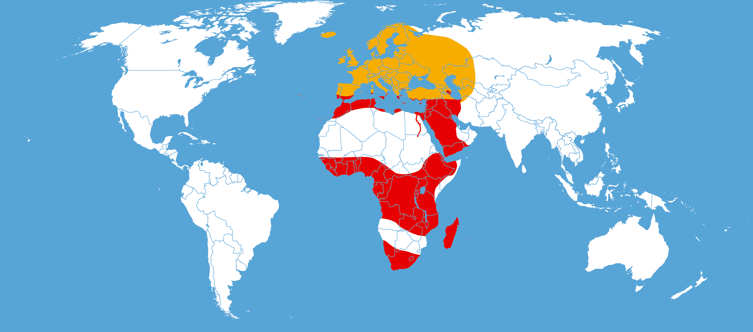 Distribution map of Acherontia atropos;red: all year distribution; orange: summer distribution possible This map has been made or improved in the German Kartenwerkstatt (Map Lab). You can propose maps to improve as well.